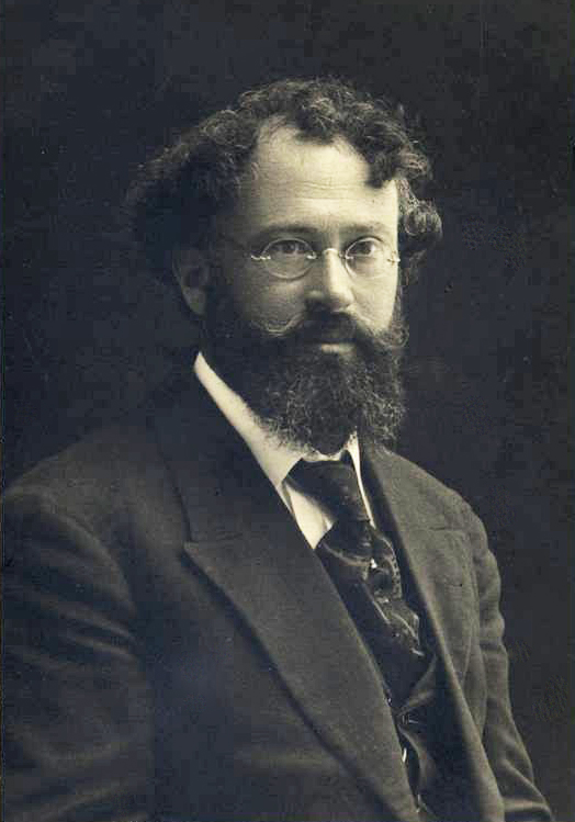 Nissan Turov